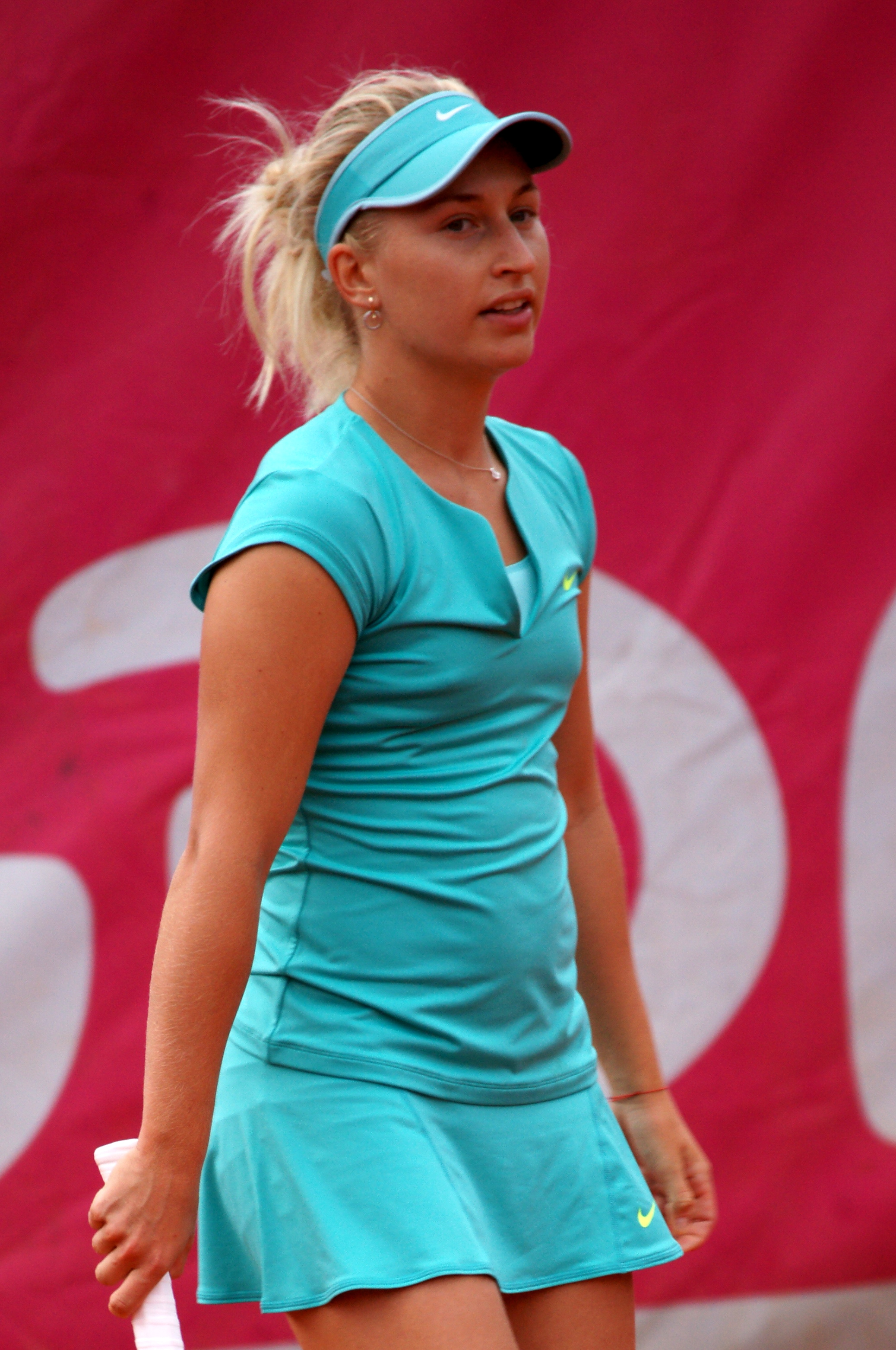 Daria Gavrilova, Open ITF Cagnes 2015